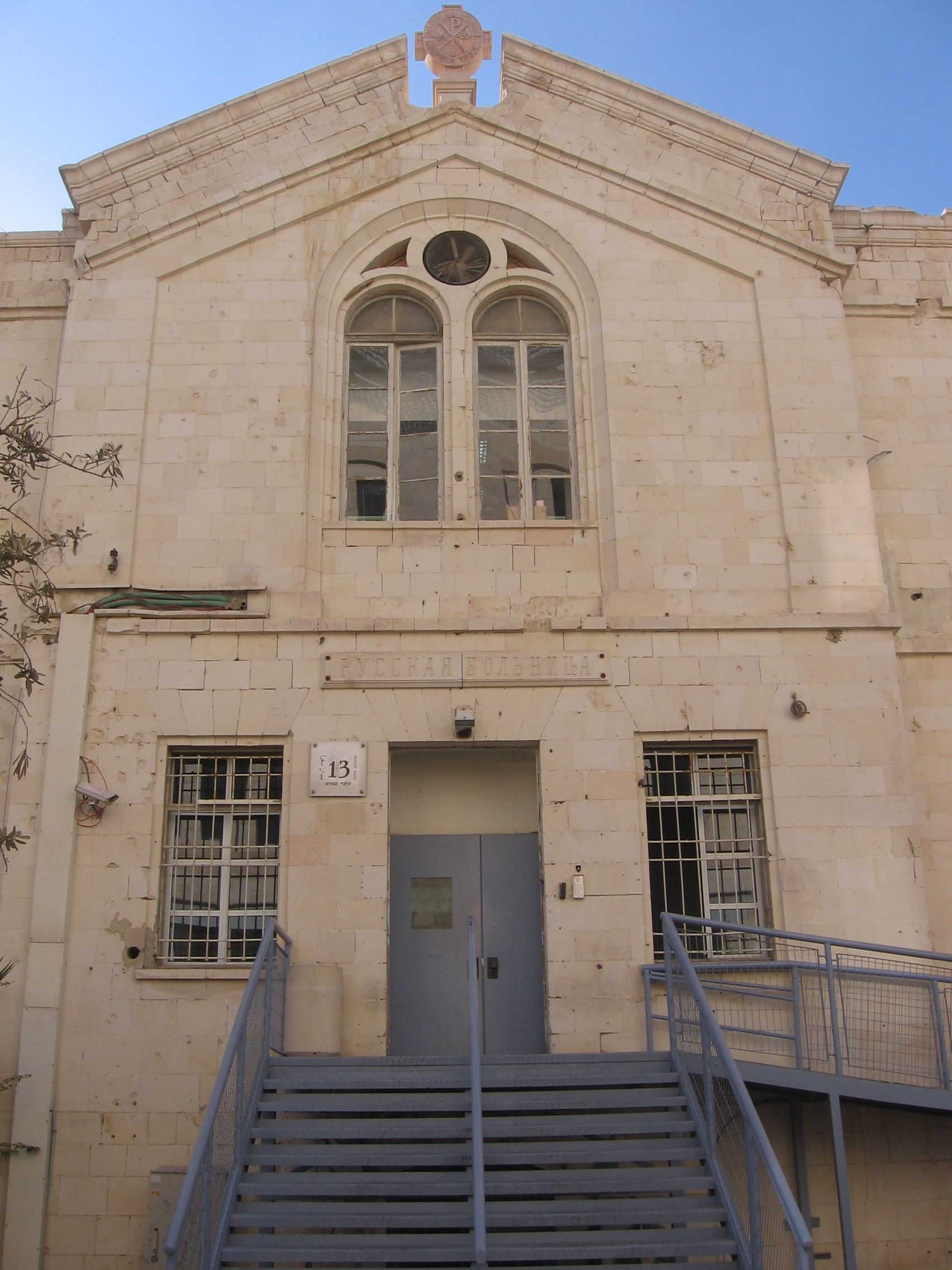 Avichail Building front, Jerusalem.